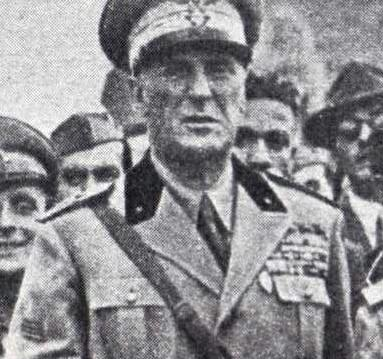 Digital photo of Italian marshall Graziani (image done during WW2). Modified with my software.